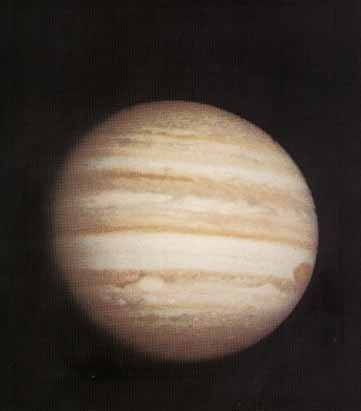 Pioneer 10 Jupiter encounter.